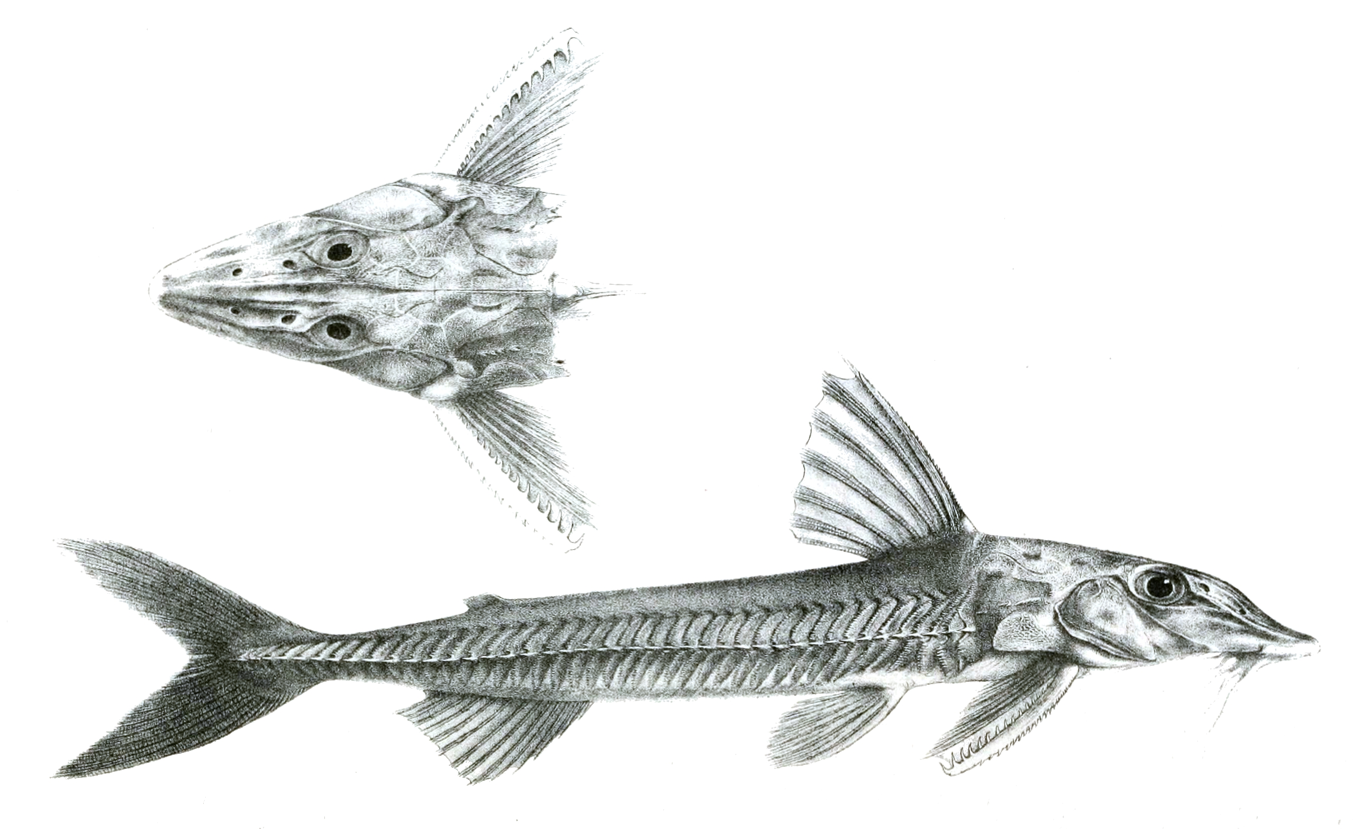 Oxydoras acipenserinus = Leptodoras acipenserinus (Günther, 1868) from lateral and head from dorsal